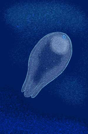 Reconstruction of the Chengjiang ctenophore, Sinoascus papillatus, from Lower Cambrian Yunnan